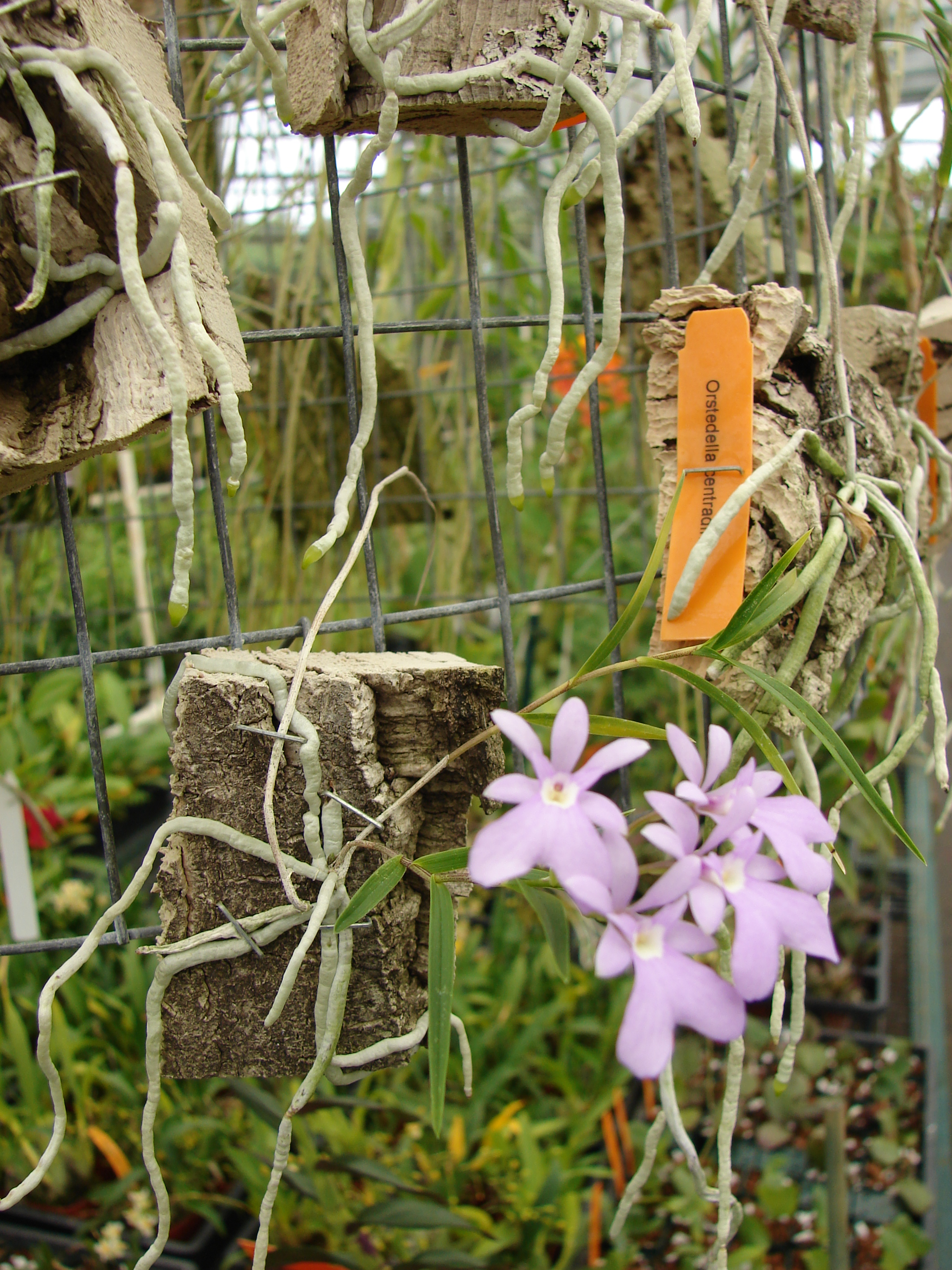 Unknown orchidaceae (flowering habit). Location: Maui, Sunshine Orchids of Maui Haiku